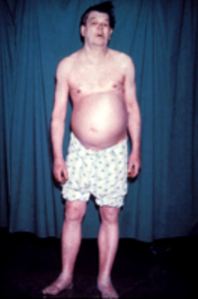 Man with myxedema showing an expressionless face, periorbital puffiness, pallor, peripheral edema, and, of course, his massive ascites.